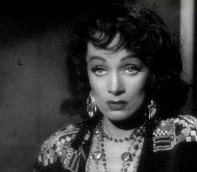 Screenshot of Marlene Dietrich from the trailer for the film Touch of Evil